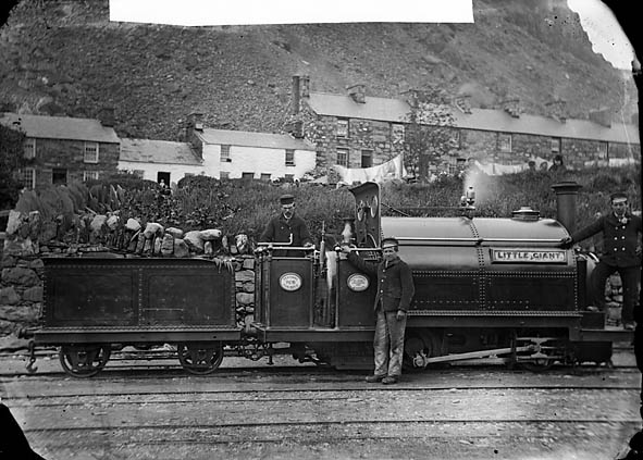 1 negative : glass, wet collodion, b&w ; 12 x 16.5 cm.